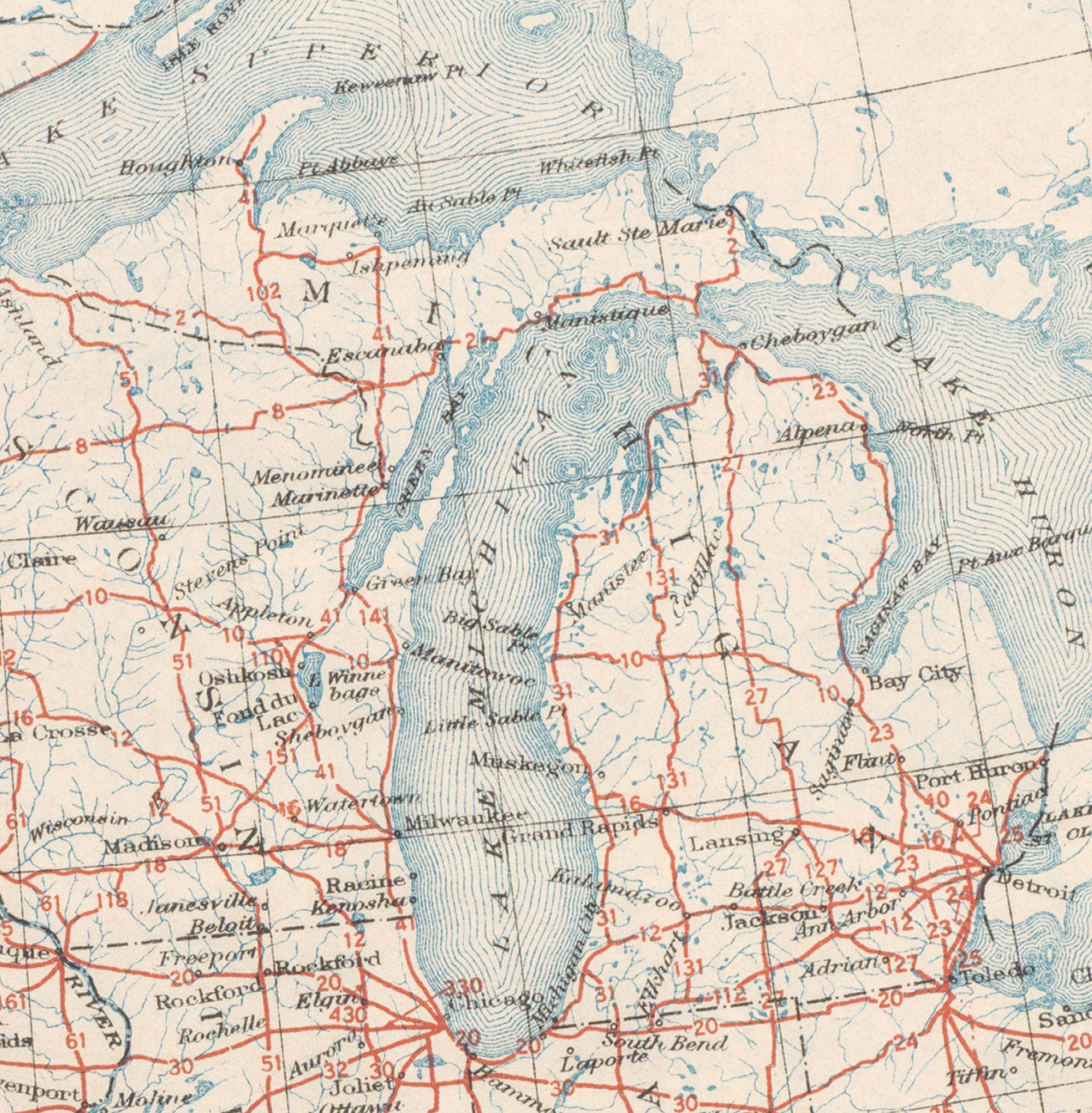 Section of the larger map showing Michigan's US Highway assignments on November 11, 1926